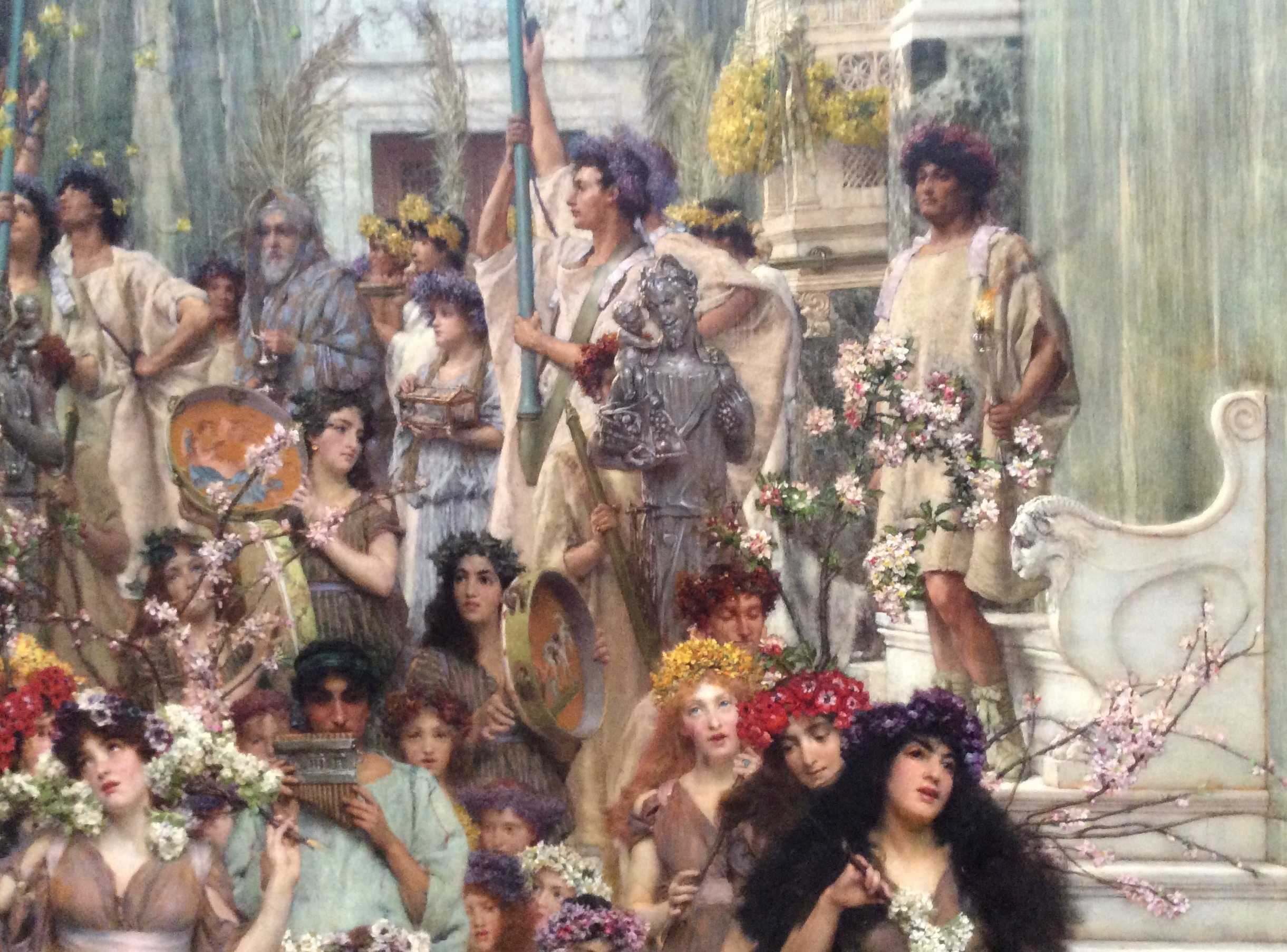 Detail of Lawrence Alma Tadema, Spring